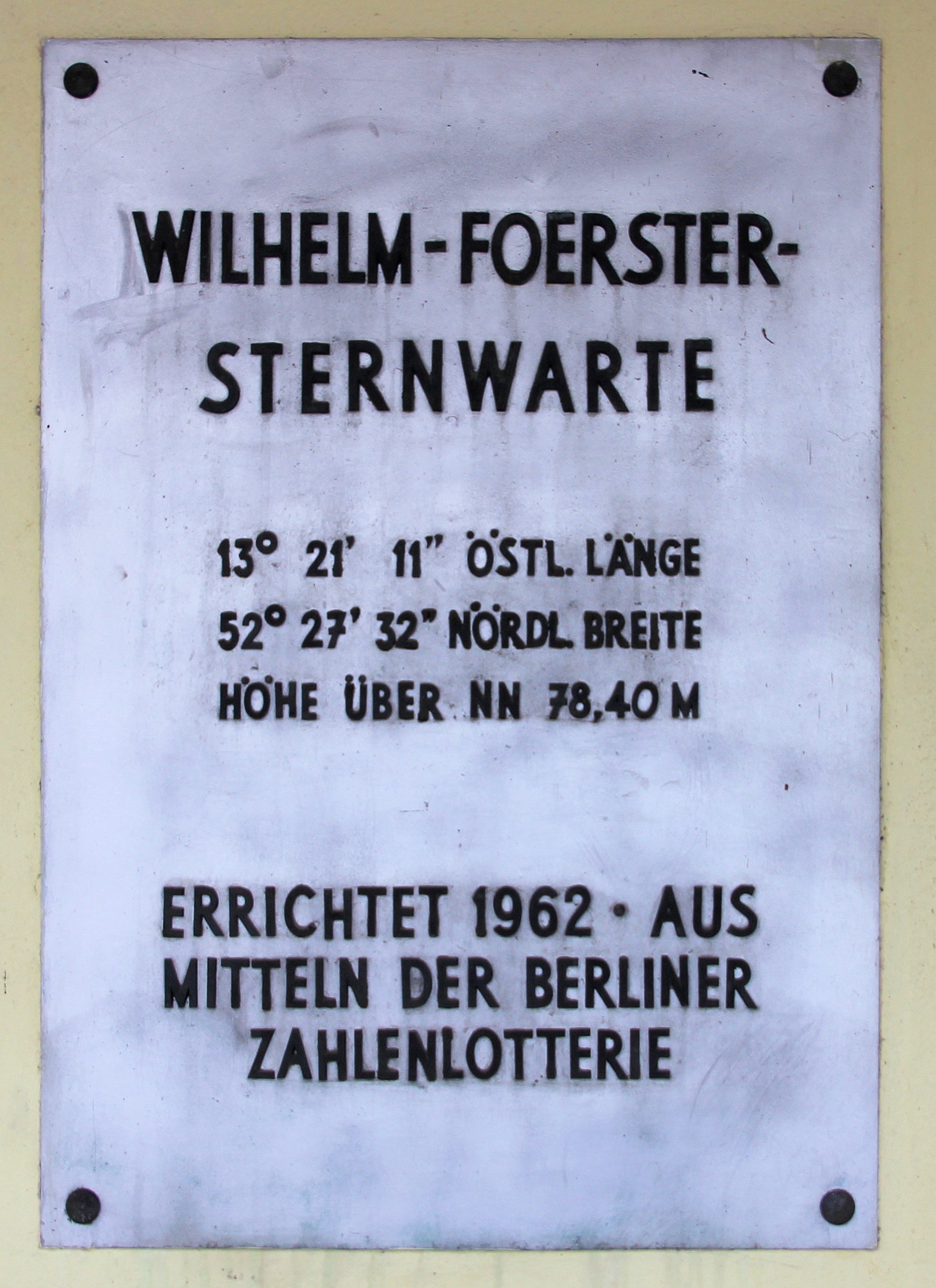 Memorial plaque, Wilhelm-Foerster-Sternwarte, Munsterdamm 86, Berlin-Steglitz, Germany